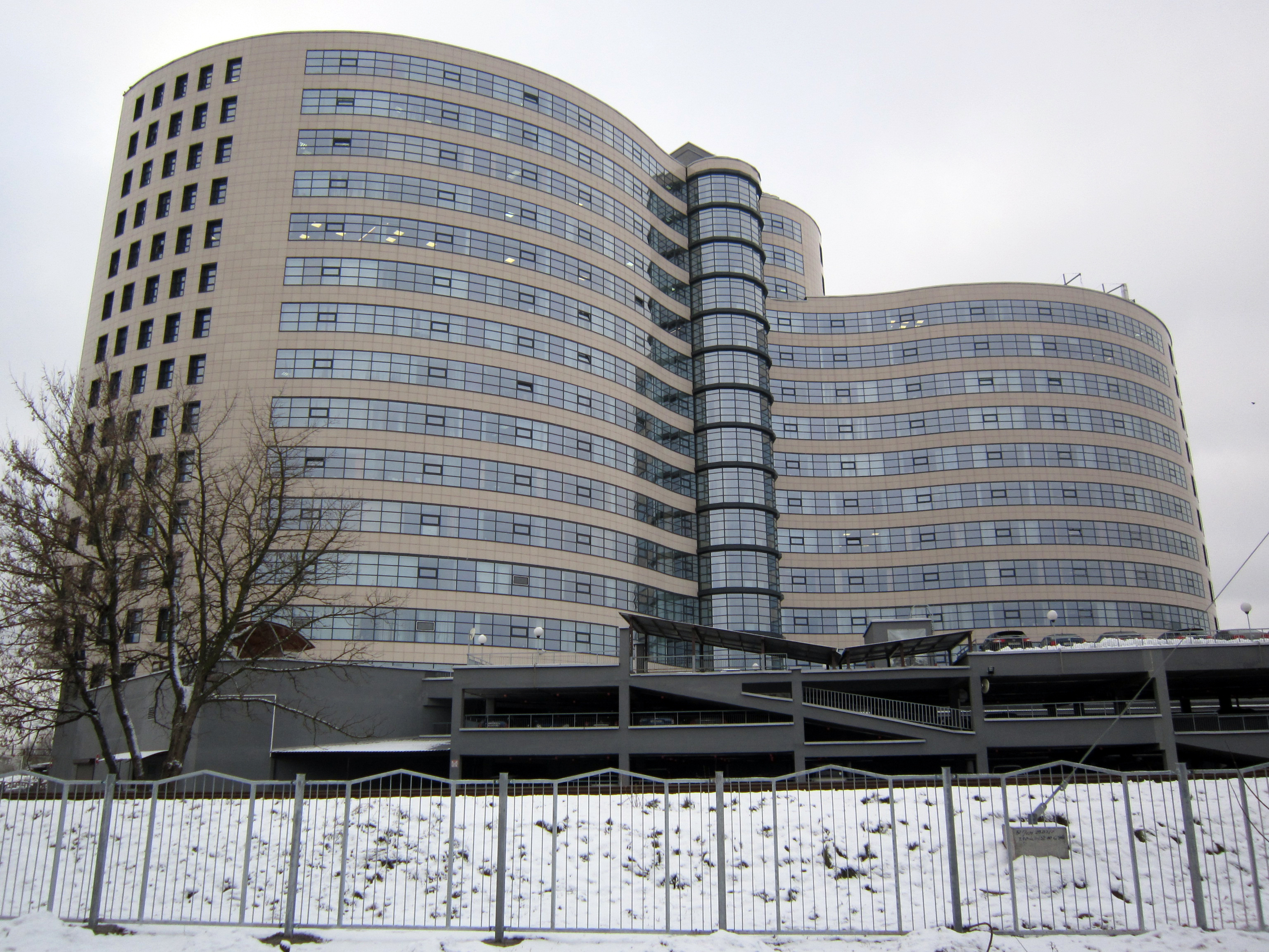 Minsk headquarters of .